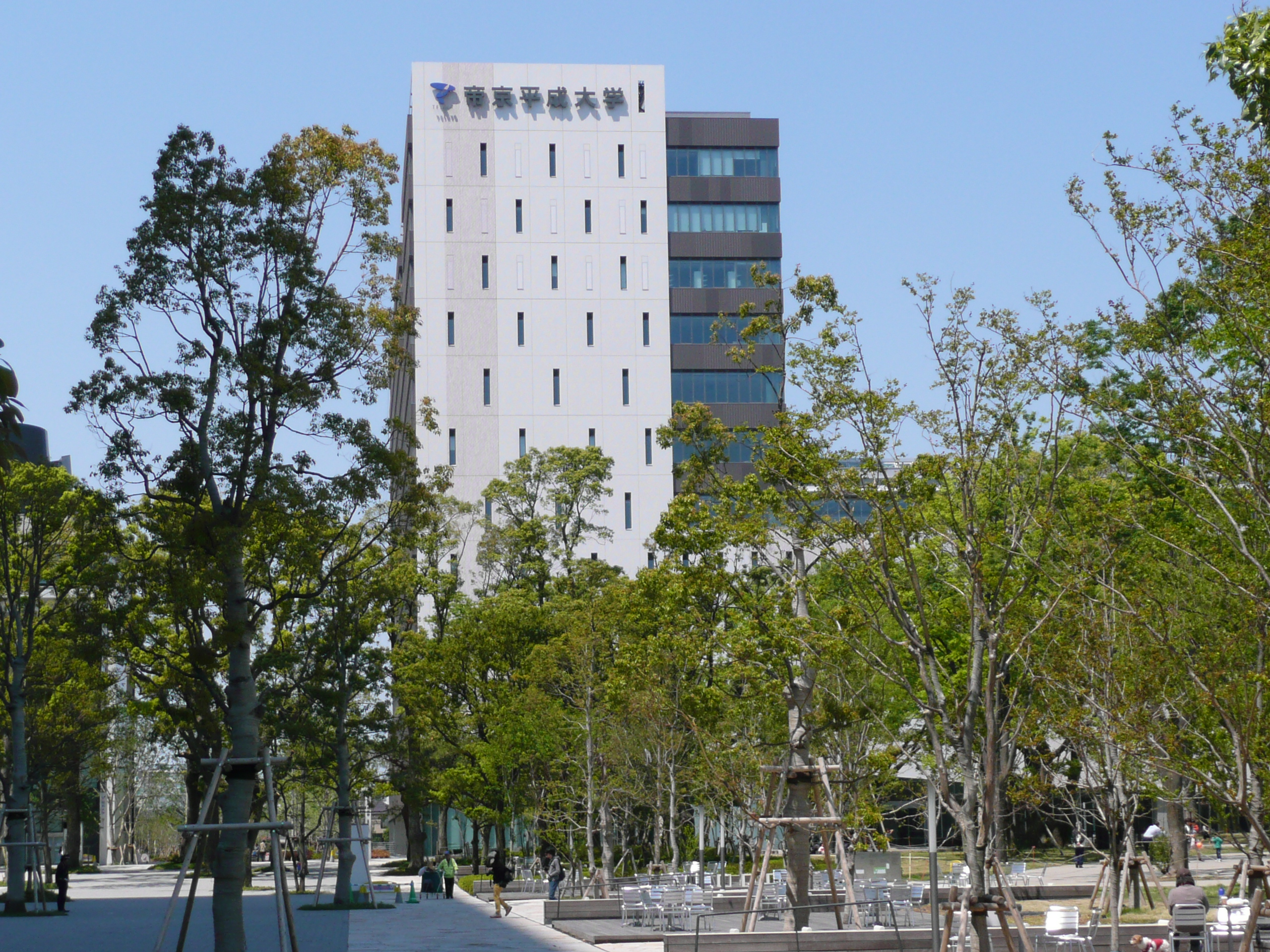 Nakano Campus, Teikyo Heisei University